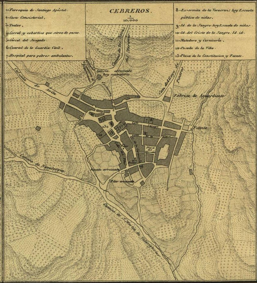 Map of Cebreros cropped from the 1864 province of Ávila map by Francisco Coello